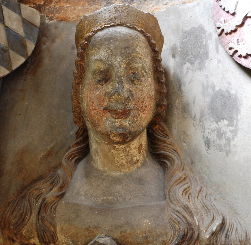 Bust of Joanna of Bavaria, Queen of Bohemia. Prague 1370s.